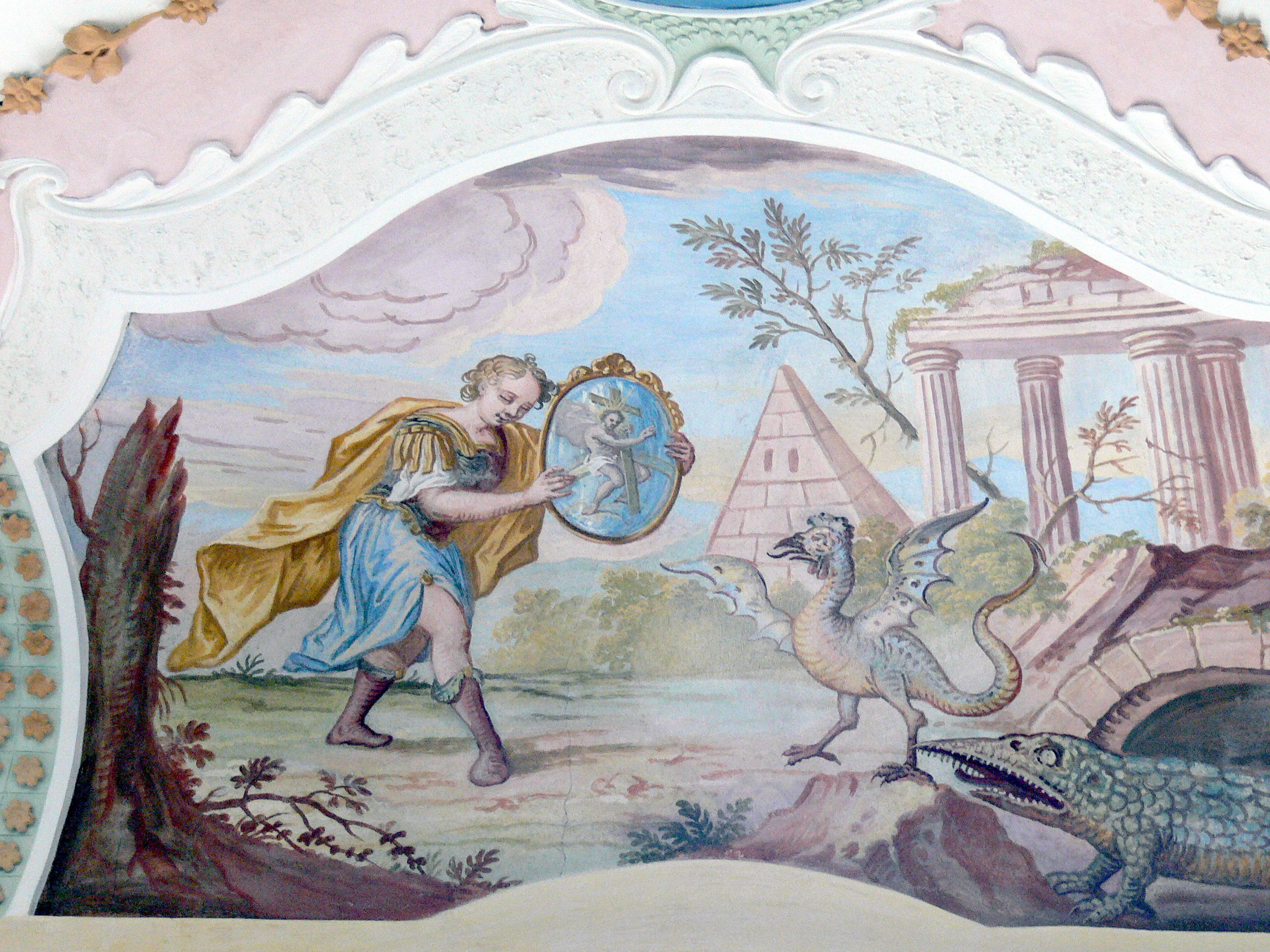 Wolframs-Eschenbach. Cemetery church St.Sebastian. Allegory of the strength of faith ( 1741 ) by Johann Michael Zinck of Neresheim. The latin inscription is: "Ne terreamini ab his" ( Don´t let you be terrified by these )